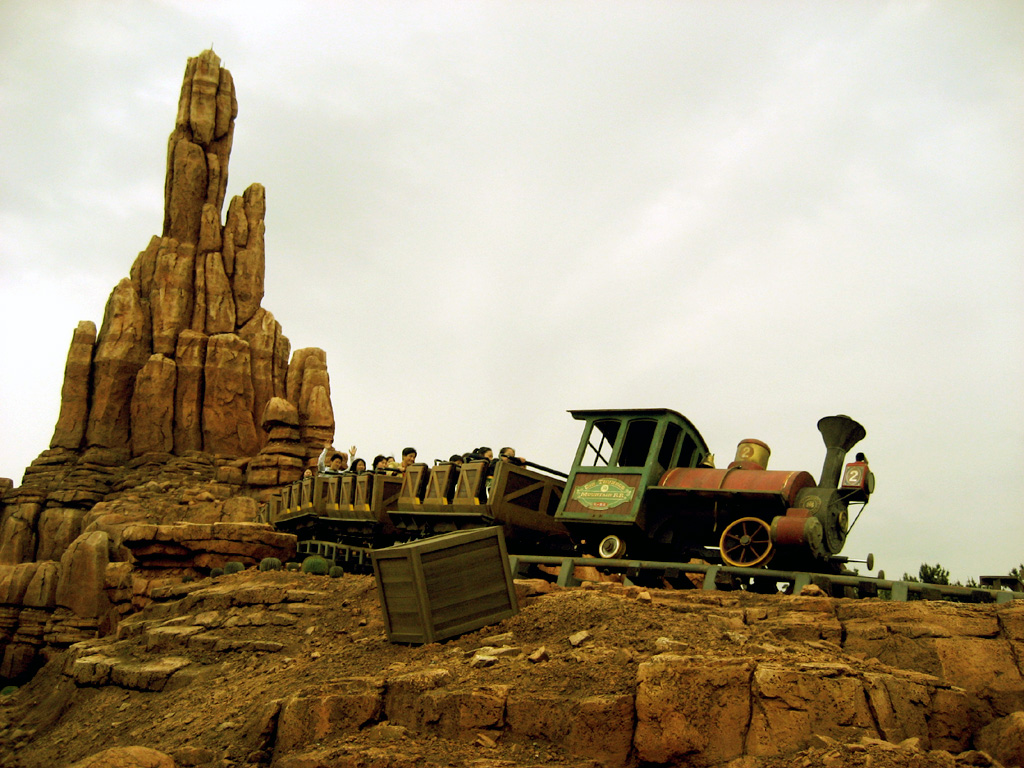 Big Thunder Mountain (Westernland at Tokyo Disneyland) 排那一个多小时的队，就为了坐个这。